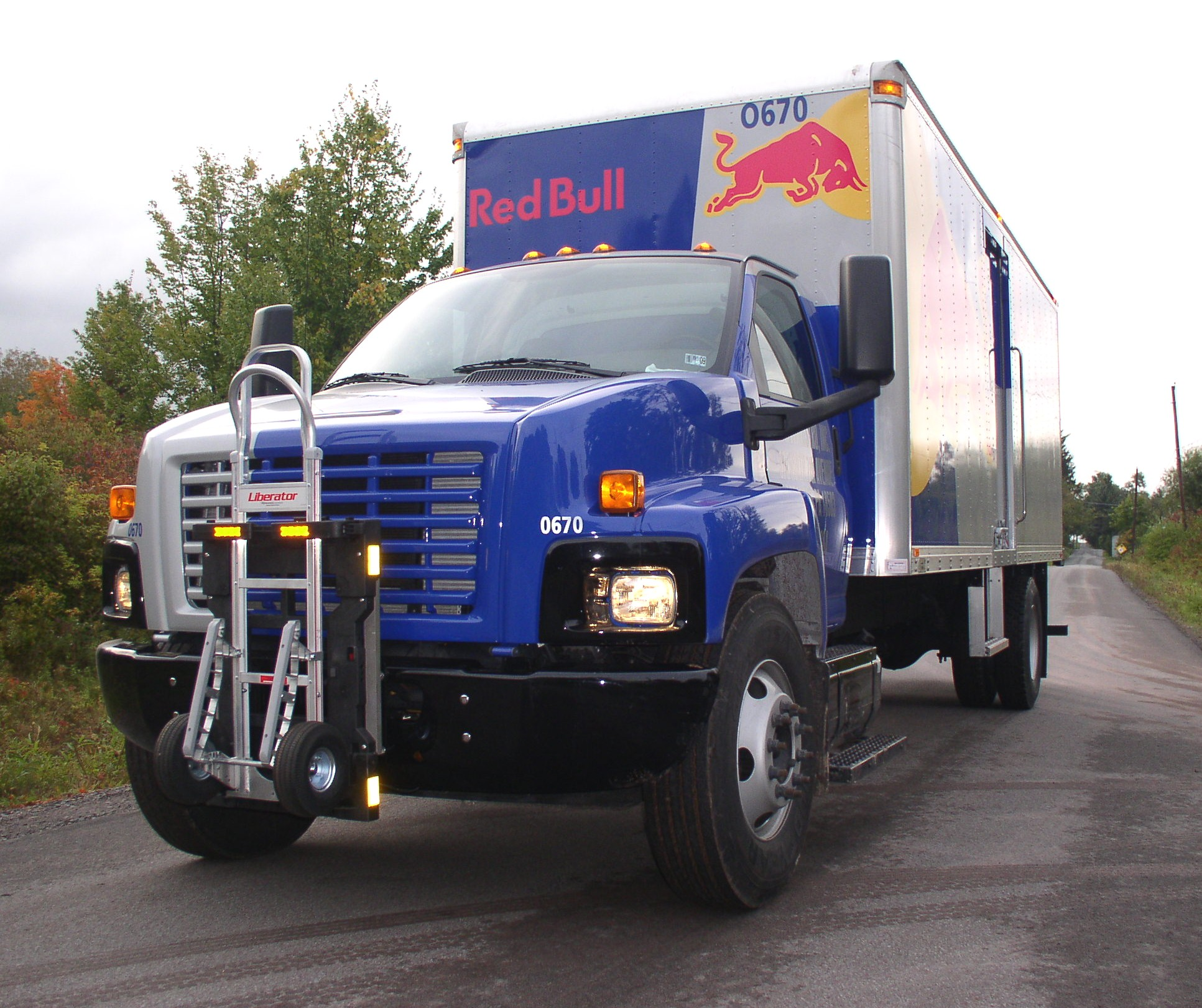 Red Bull Energy Drink beverage truck using the new hand truck invention call an HTS Ultra-Rack.